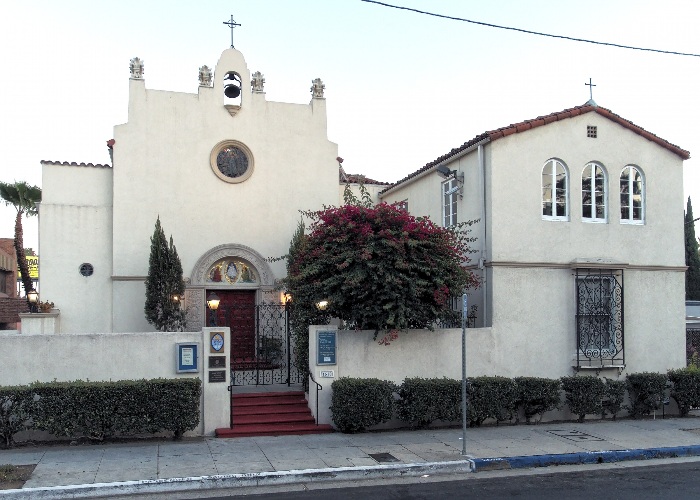 Saint Mary of the Angels, 4510 Finley Ave., LAHCM 136.